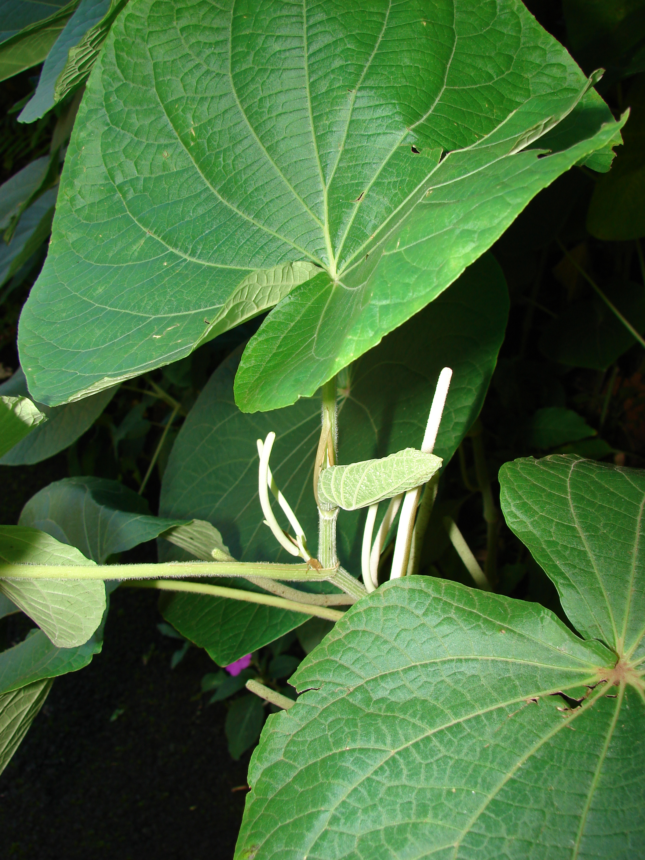 Macropiper puberulum (leaves and inflorescences). Location: Maui, Enchanting Floral Gardens of Kula